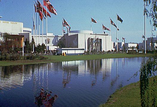 World's Fair. British Pavilion CALL NUMBER: LC-G605- 00444 [P&P] REPRODUCTION NUMBER: LC-G605-CT-00444 (color corrected film copy slide) No known restrictions on publication. MEDIUM: 1 slide : color ; 2x2 in. CREATED/PUBLISHED: 1939 or 1940. CREATOR: NOTES: Job and item titles devised. SUBJECTS: Exhibitions. United States--New York (State)--New York. FORMAT: Slides Color. PART OF: Gottscho-Schleisner Collection (Library of Congress) REPOSITORY: Library of Congress Prints and Photographs Division Washington, D.C. 20540 USA DIGITAL ID: (color corrected film copy slide) gsc 5a30766 CARD #: gsc1994028156/PP